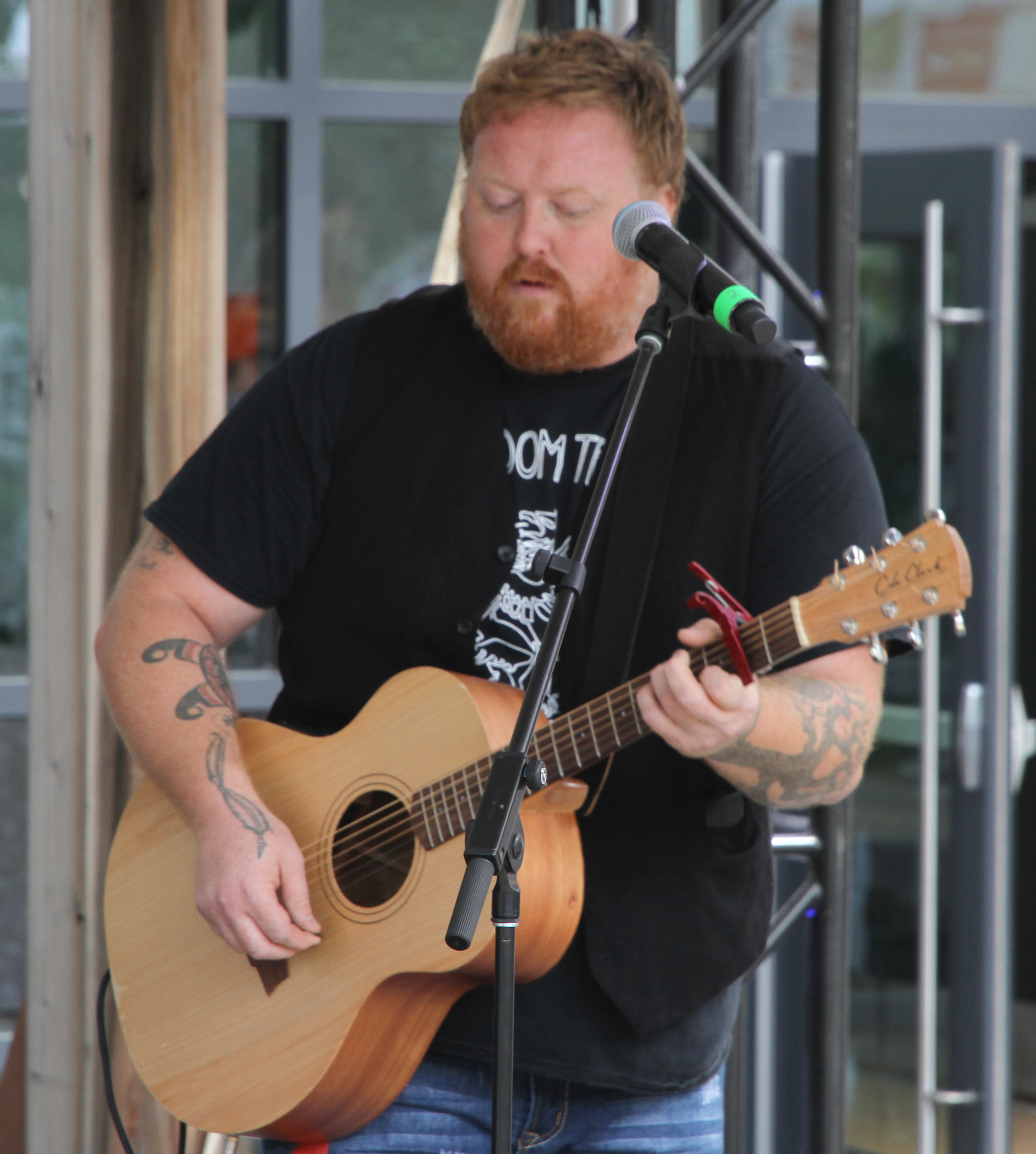 2016 CFC Annual BBQ Fundraiser performer and Slaight Music artist Tomi Swick. Photo: Danilo Ursini.